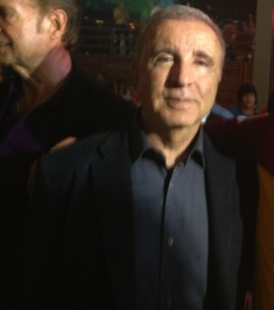 Galatasaray SK President.